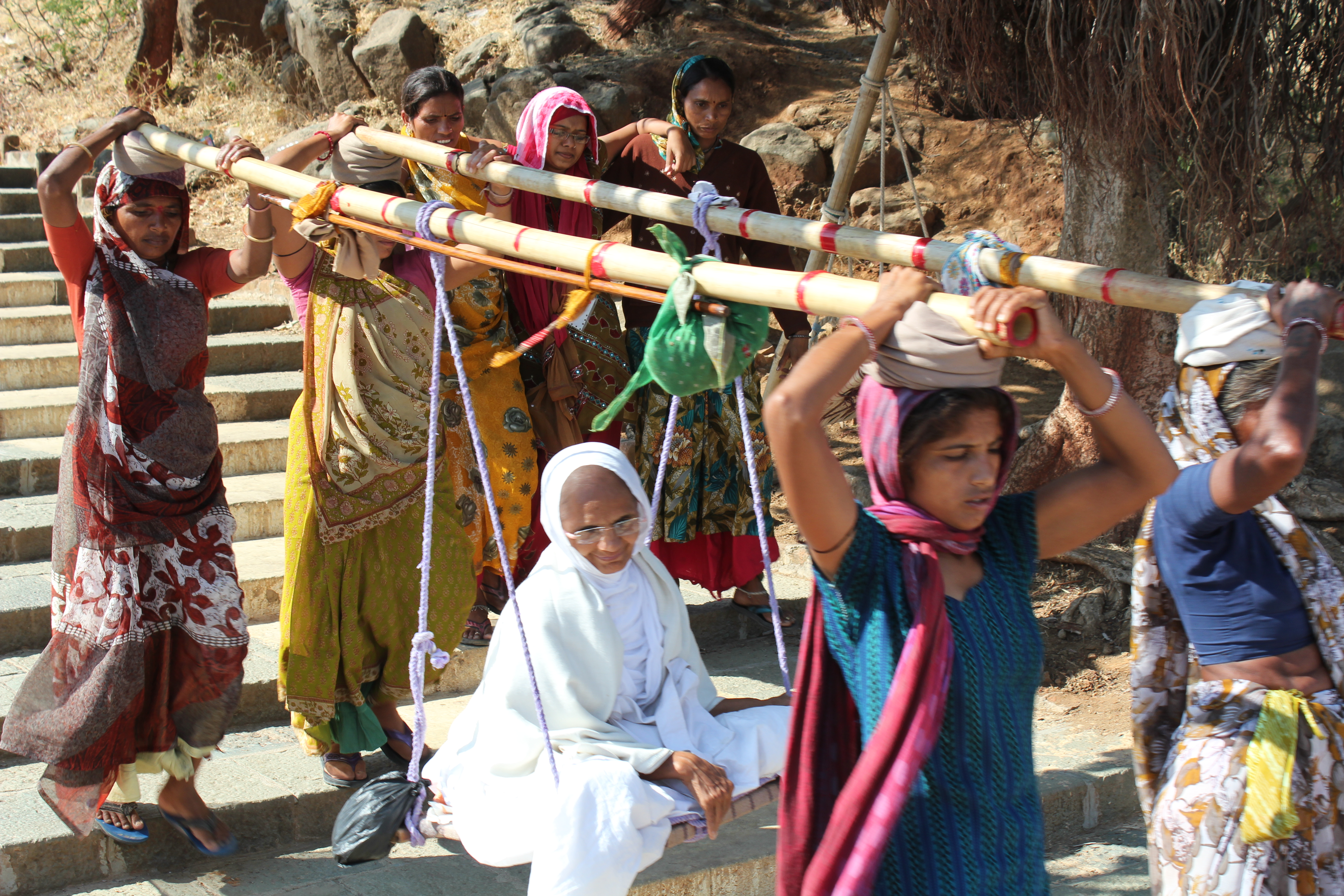 Palitana, Shatrunjaya, dholi going down the hill Palitana (formerly known as Padliptapur) is a city in the state of Gujarat, India. It is a major pilgrimage centre for Jains, and has been nicknamed "City of Temples". The Palitana temples of Jainism are located on the Shatrunjaya Hill. Along with Shikharji in the state of Jharkhand, the two sites are considered the holiest of all pilgrimage places by the Jain community. As the temple-city was built to be an abode for the divine, no one is allowed to stay overnight, including the priests. Every Jain believes that a visit to this group of temples is essential as a once in a life time chance to achieve nirvana or salvation. This site on Shatrunjaya hill is considered sacred by Jains. There are approximately 863 marble-carved temples on the hills.The main temple is reached by stepping up 3500 steps. It is said that 23 tirthankaras (a human being who helps in achieving liberation and enlightenment), except Neminatha (a liberated soul which has destroyed all of its karma), sanctified the hill by their visits. The main temple is dedicated to Rishabha, the first tirthankara; it is the holiest shrine for the Svetambara Murtipujaka sect. Digambara Jain have only one temple here. (source